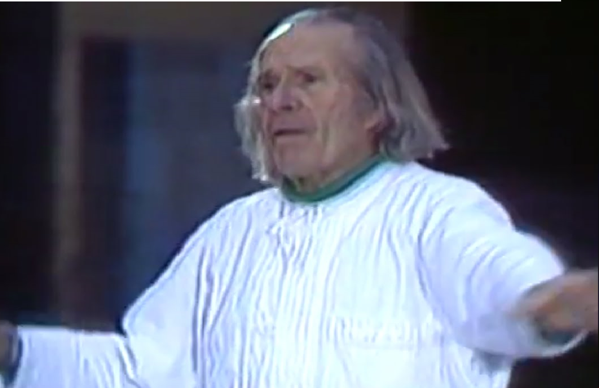 Frederick Fennell conducting the U.S. Navy Band in Percy Grainger's Lincolnshire Posy in preparation of the Midwest Clinic 1987